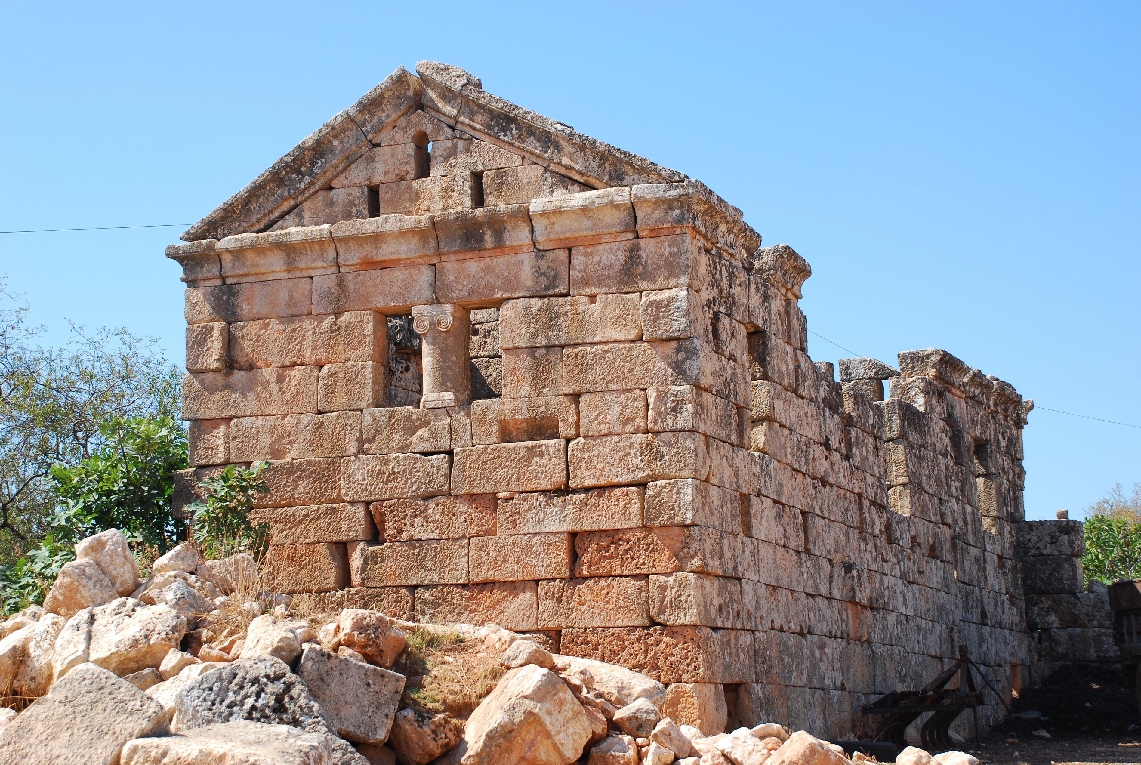 Jerada or Gerada, dead city in Syria, upper part in village